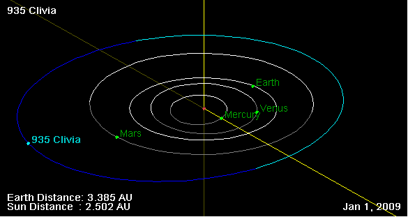 935 Clivia orbit, and his position on 01 Jan 2009 (NASA Orbit Viewer applet)